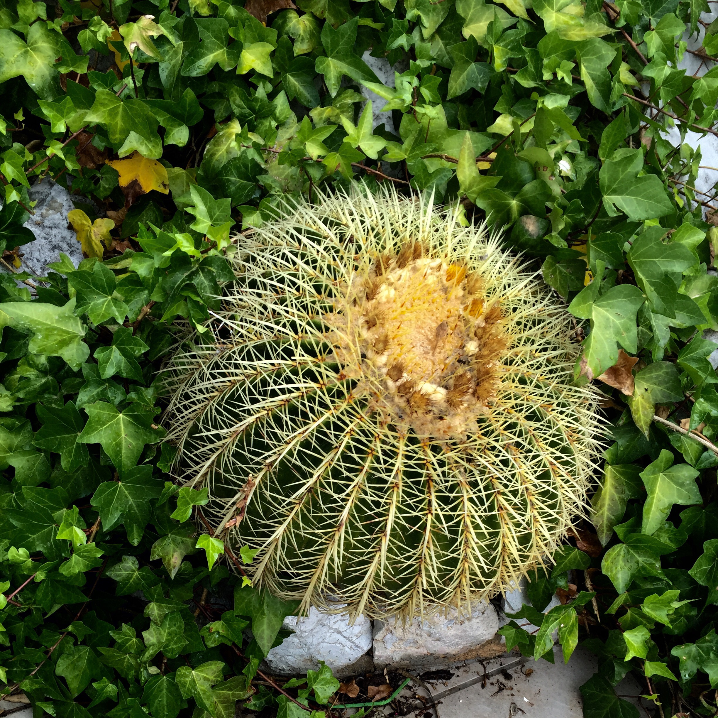 A planted cactus in Gibraltar.